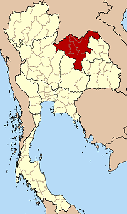 Map of Thailand highlighting the extent of the Roman Catholic diocese of Udon Thani.